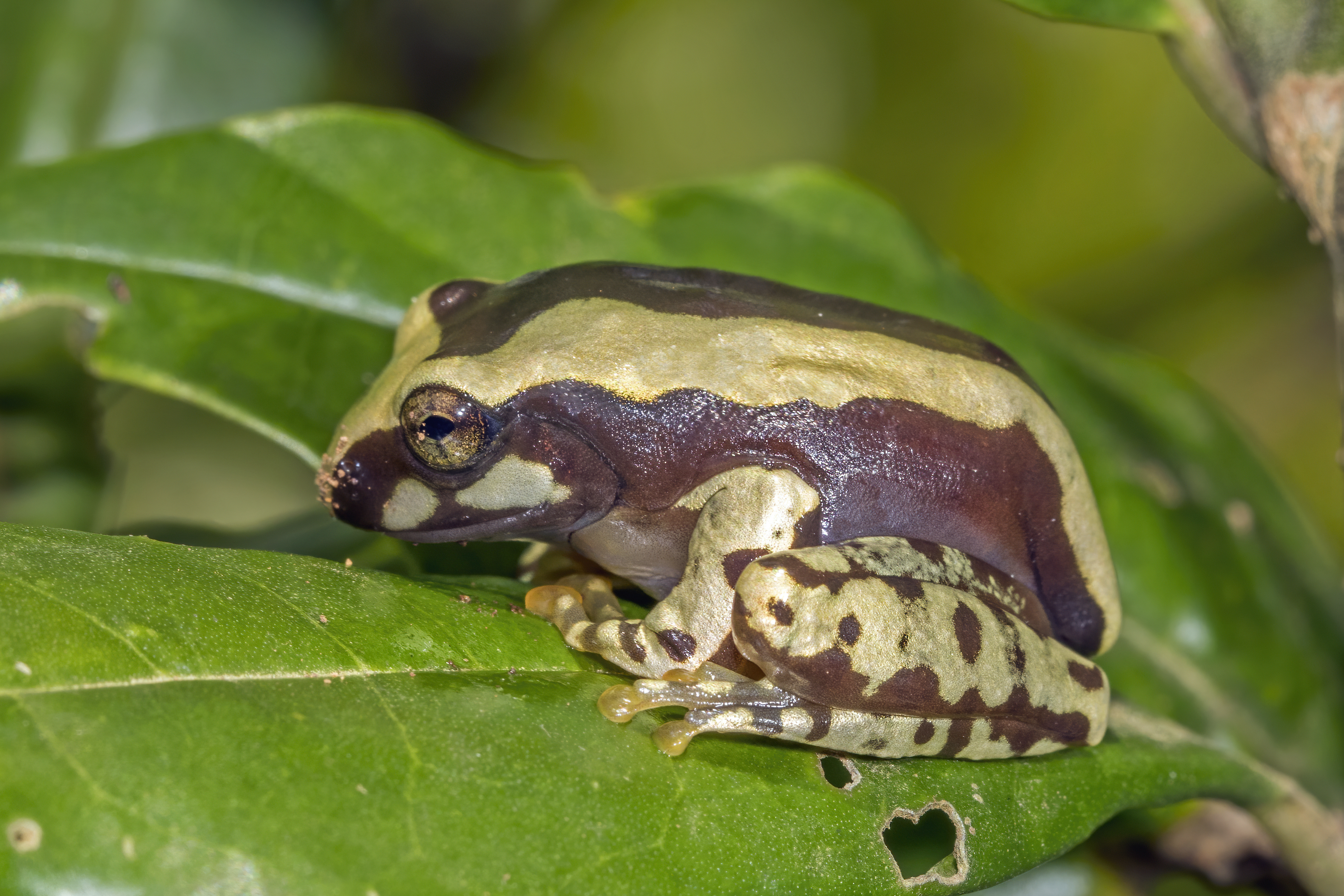 Bright-eyed frog (Boophis cf. roseipalmatus) juvenile, Montagne d’Ambre National Park, Madagascar. Identified by Dr Mark Scherz. Originally identified as Boophis sp. aff. picturatus